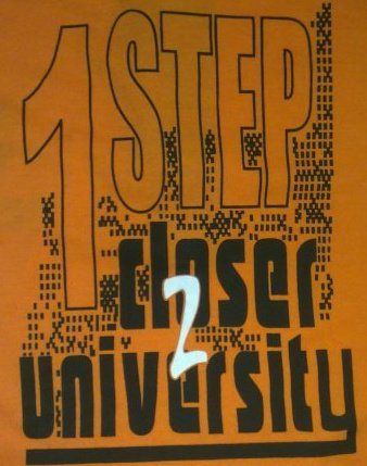 slogan of pre-university students in SMKP